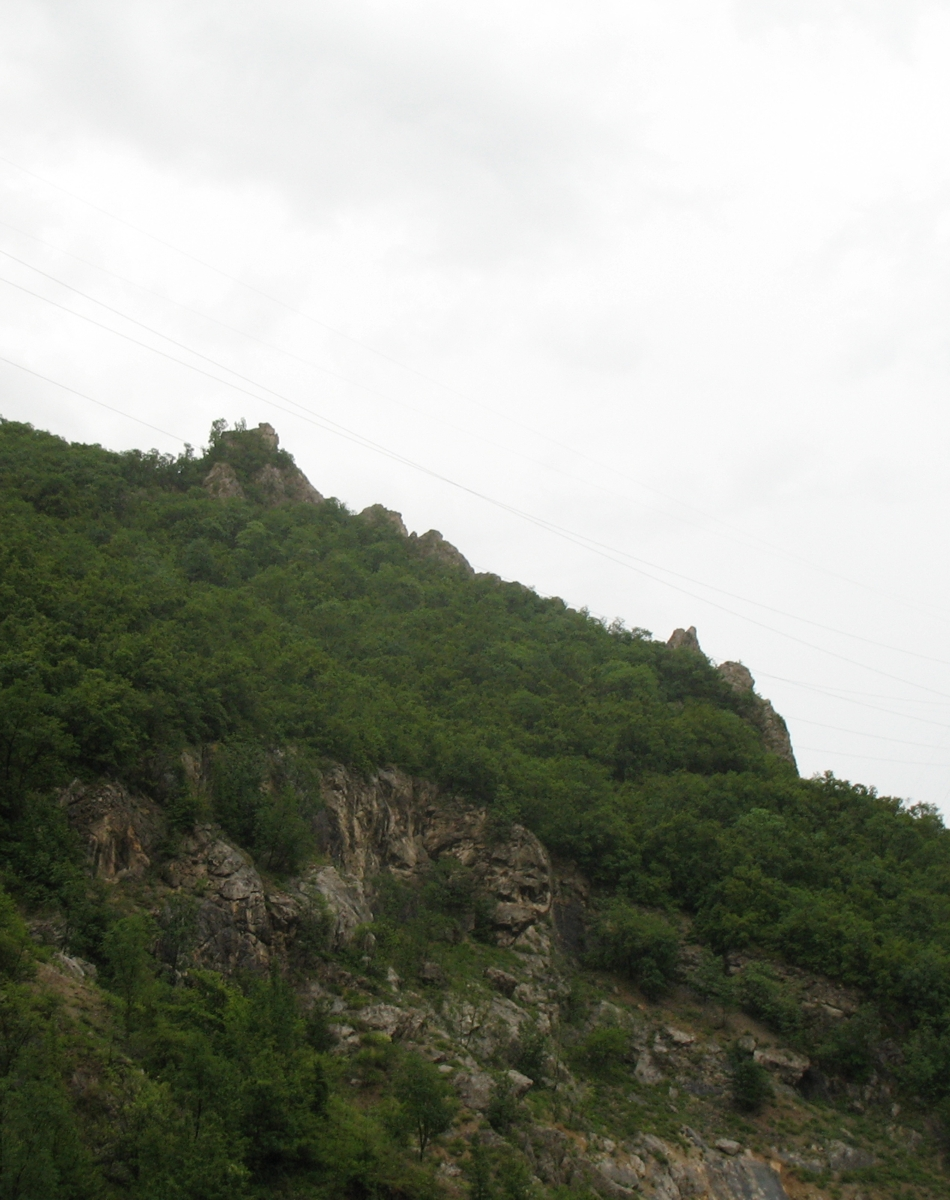 Ždrelo fortress remains in Gornjak gorge on Mlava,near Petrovac, Serbia.